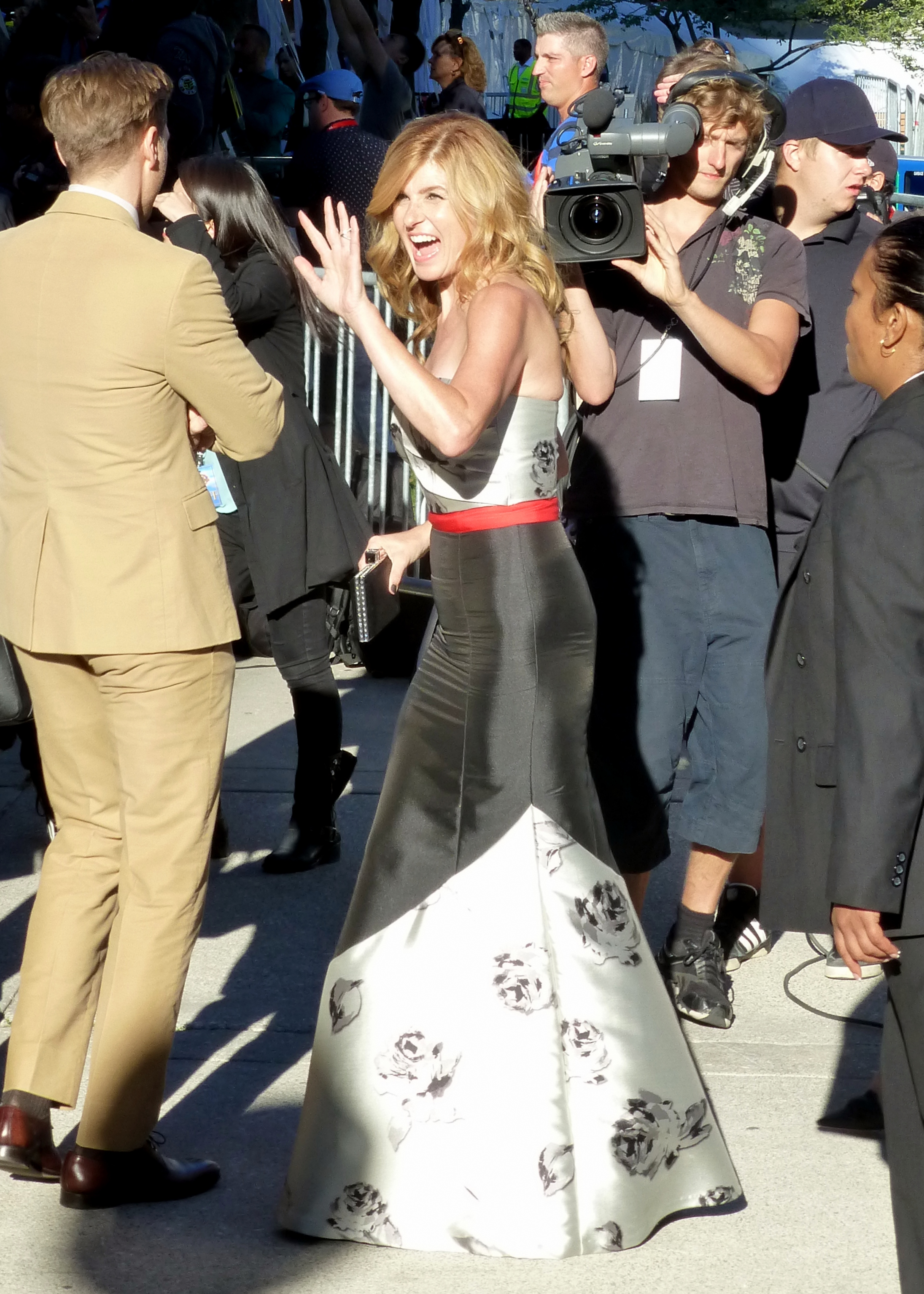 Connie Britton at the premiere of This Is Where I Leave You, 2014 Toronto Film Festival